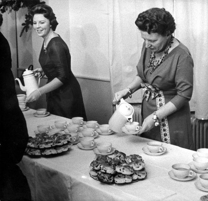 Christmas at Soestdijk Palace. The Dutch queen Juliana and princess Beatrix are serving cocoa and buns to the staff. The Netherlands, Baarn, December 22, 1960.